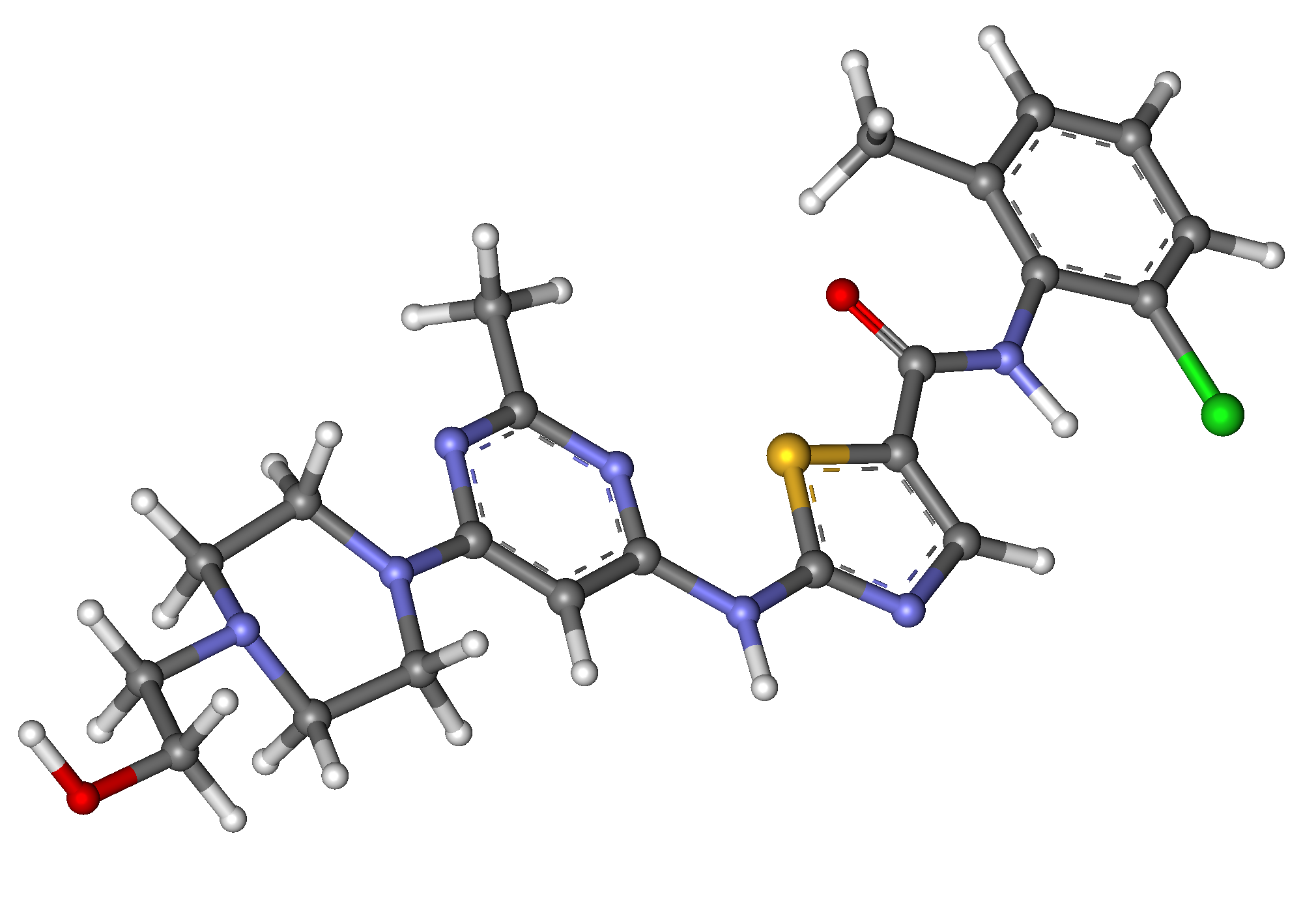 Ball-and-stick model of dasatinib molecule. The structure is taken from ChemSpider. ID 2323020